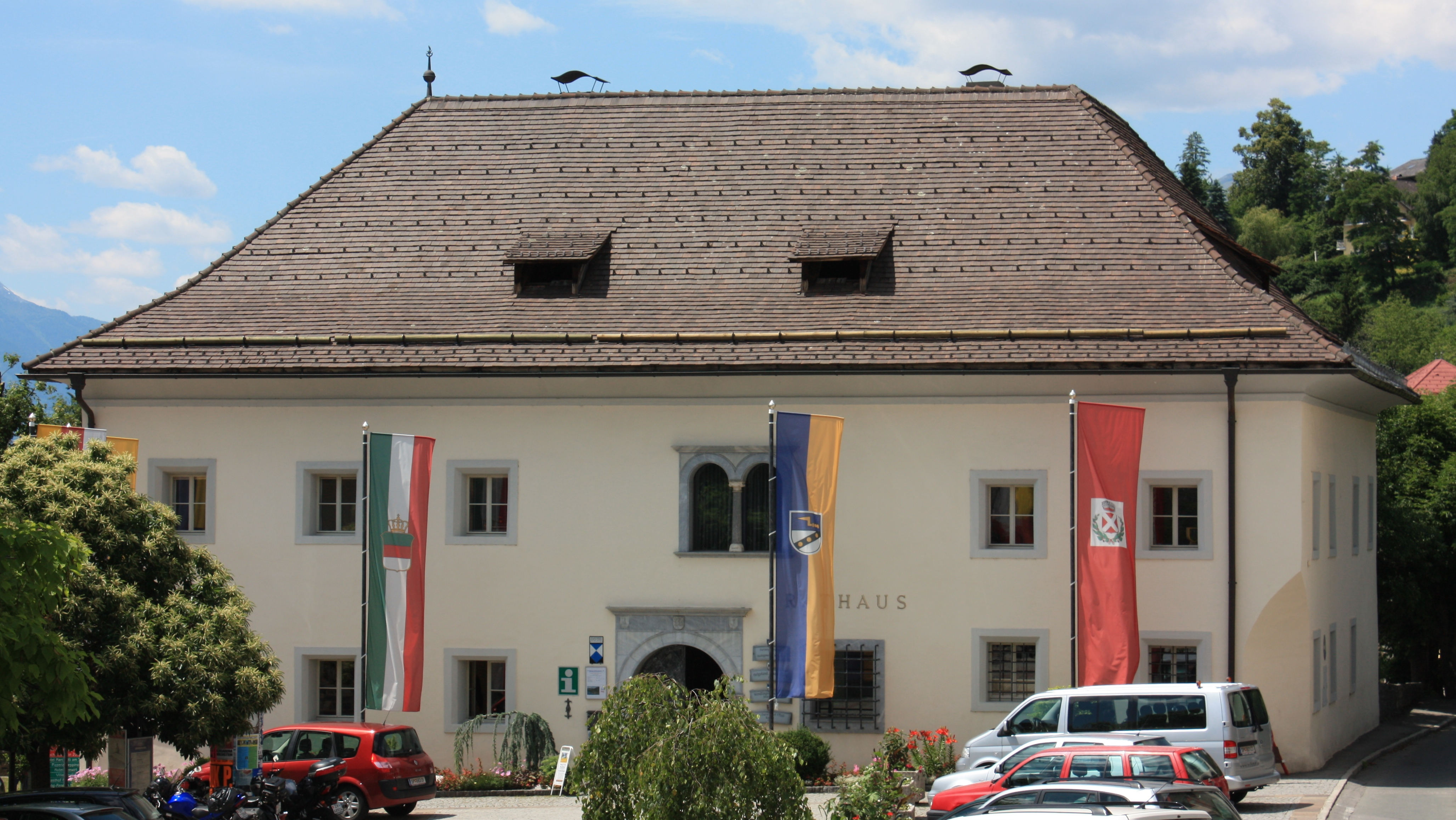 Town hall Locality: Millstatt Community:Millstatt